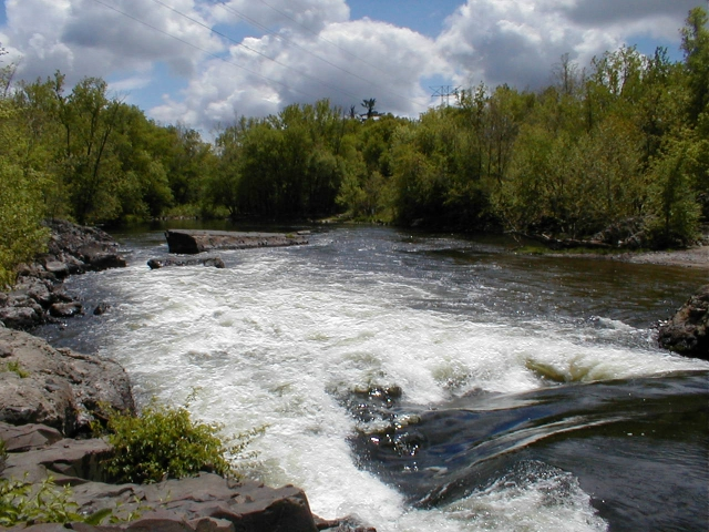 Down the river from the dam where you can see the big chunk of dam that broke off